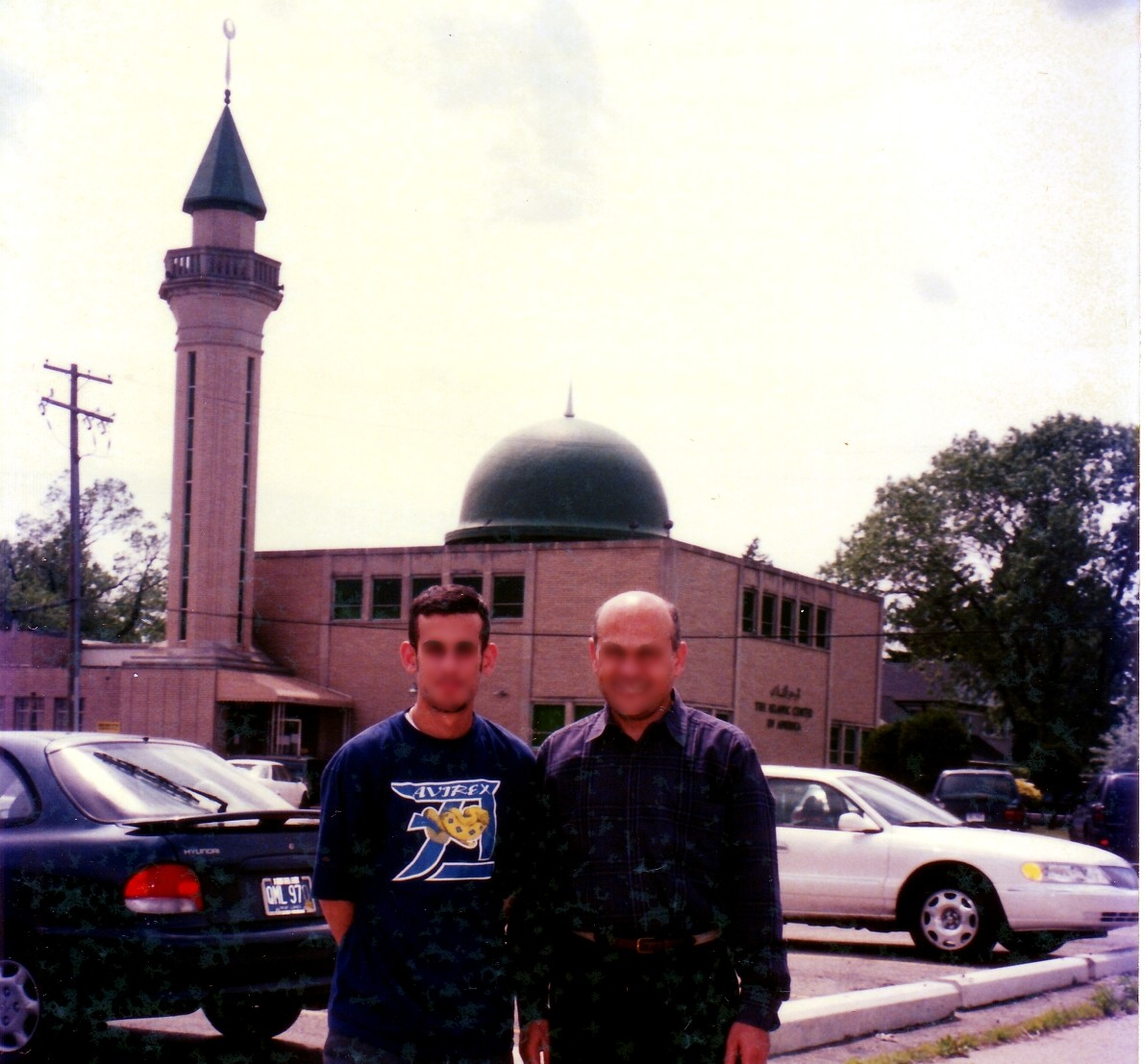 Two men stand in front of the original location of the Islamic Center of America at 15571 Joy Road in Detroit. The mosque, pictured in the background, was built in 1963 as Michigan’s first, purpose-built Shi`a mosque. The Islamic center moved to a new and larger mosque in 2005.